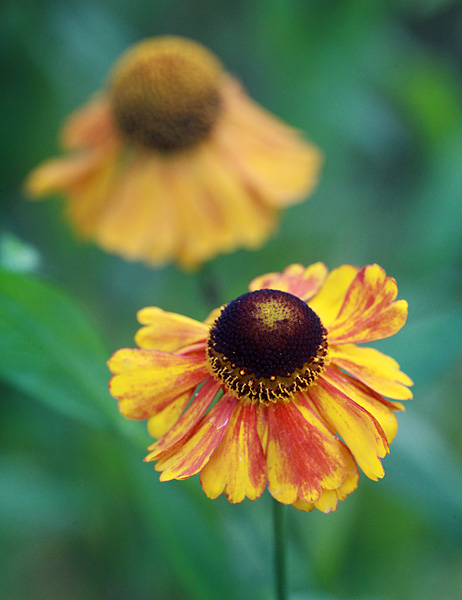 Helenium 'El Dorado'